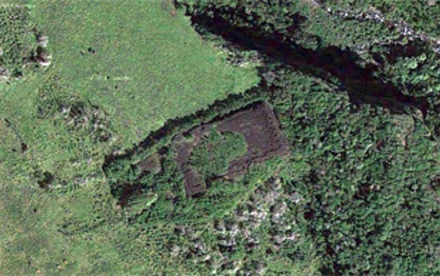 Aerial view of Loaloa Heiau, Maui, Hawaii.